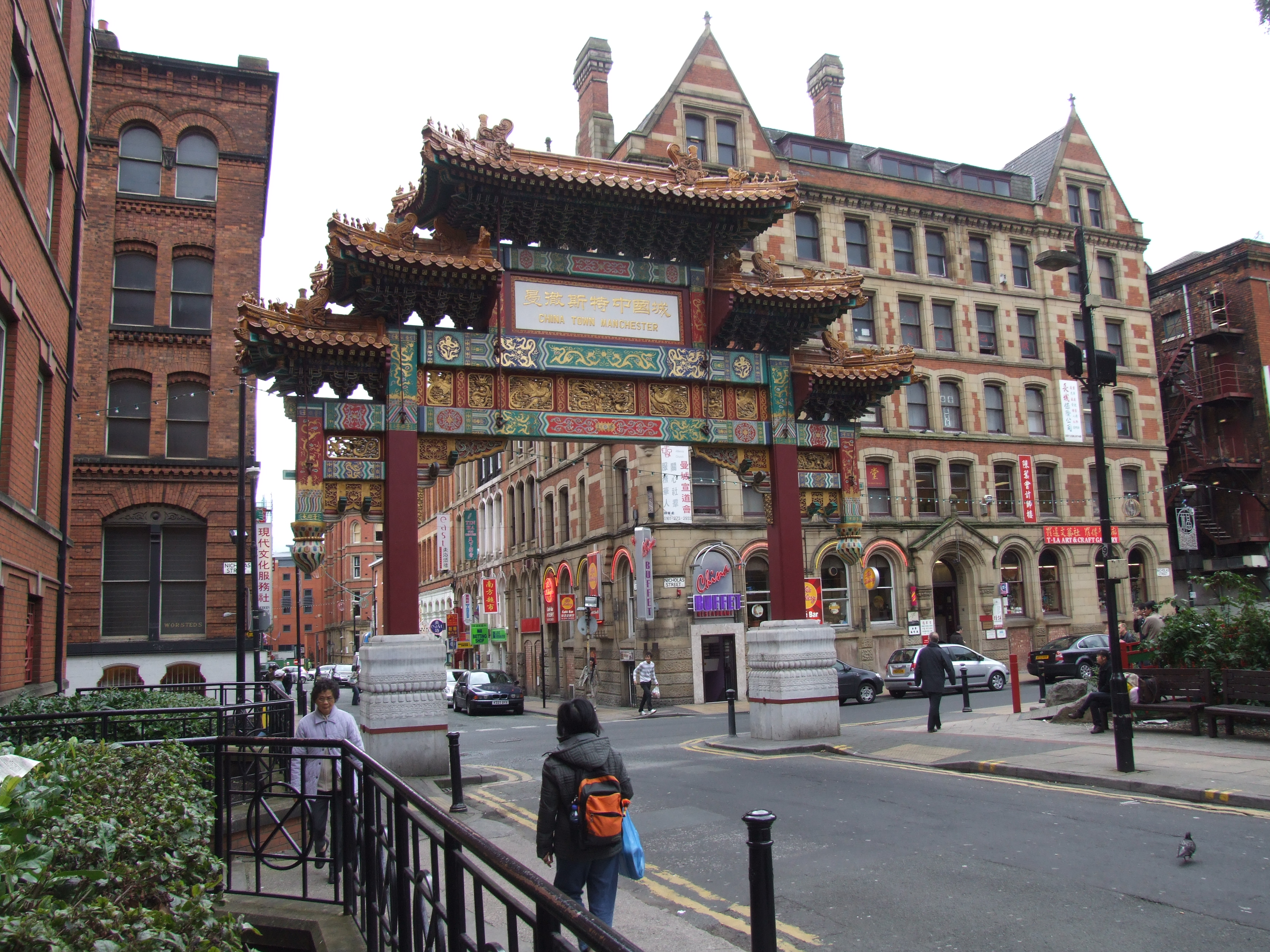 China town Manchester